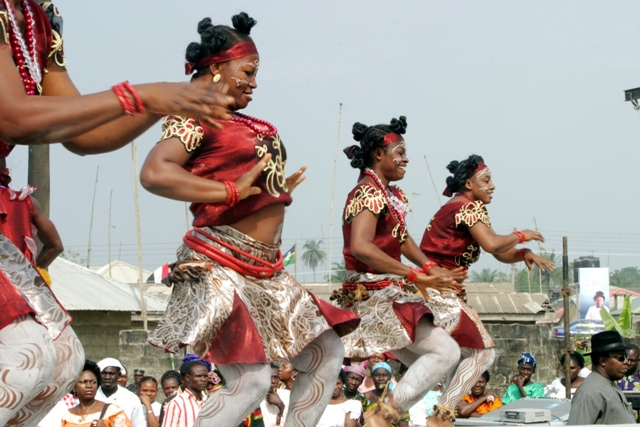 Akwa Ibom Dancers This is an image from Nigeria